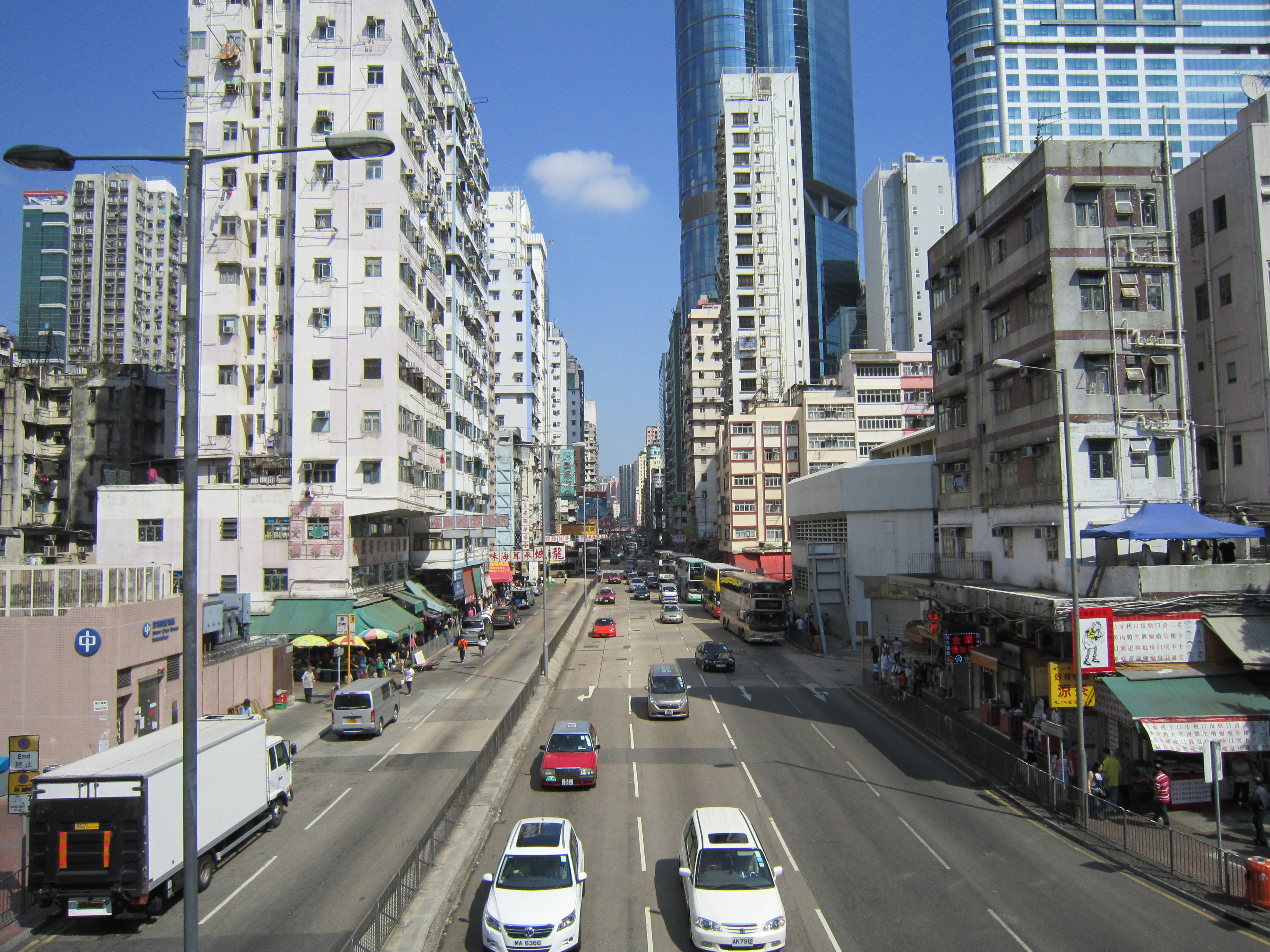 Argyle Street from Tai Kok Tsui